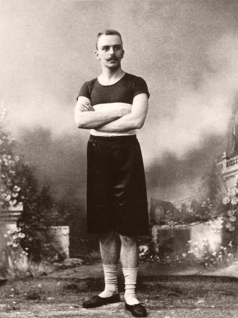 Olympic Games 1896, Athens. Friedrich Adolph Traun, who came from Dresden to compete the 800 m race and returned as champion in tennis.